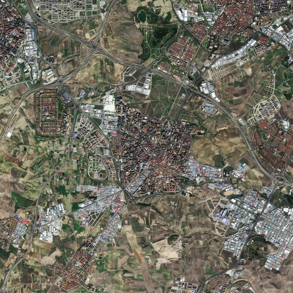 The diverse landscapes of the autonomous Community of Madrid in the heart of Spain are evident in this week’s image. The community and country’s capital city is visible near the centre of the image. Zooming in, we can see the Buen Retiro park just east of the city centre with its large, artificial pond. About 3.5 km due north sits the Santiago Bernabéu football stadium. Southeast of the stadium we can see another circular structure: the Las Ventas bullfighting ring. In the upper left corner of the image is the El Pardo mountain and protected natural park, which is popular for mountain biking. The other areas surrounding Madrid are blanketed with agricultural structures. East of the city are large fields along the Jarama river, and more areas of agriculture appearing brown further east still. This image, also featured on theEarth from Space video programme, was taken by the Sentinel-2A satellite on 16 November 2015. Launched in June 2015, Sentinel-2 can map changes in land cover such as forest, crops, grassland, water surfaces and artificial cover like roads and buildings in cities. Early results from the mission on mapping changes in land cover are expected to be presented at the upcoming Living Planet Symposium, held in Prague in May. The event brings together scientists and users to present their latest findings on Earth’s environment and climate derived from satellite data.